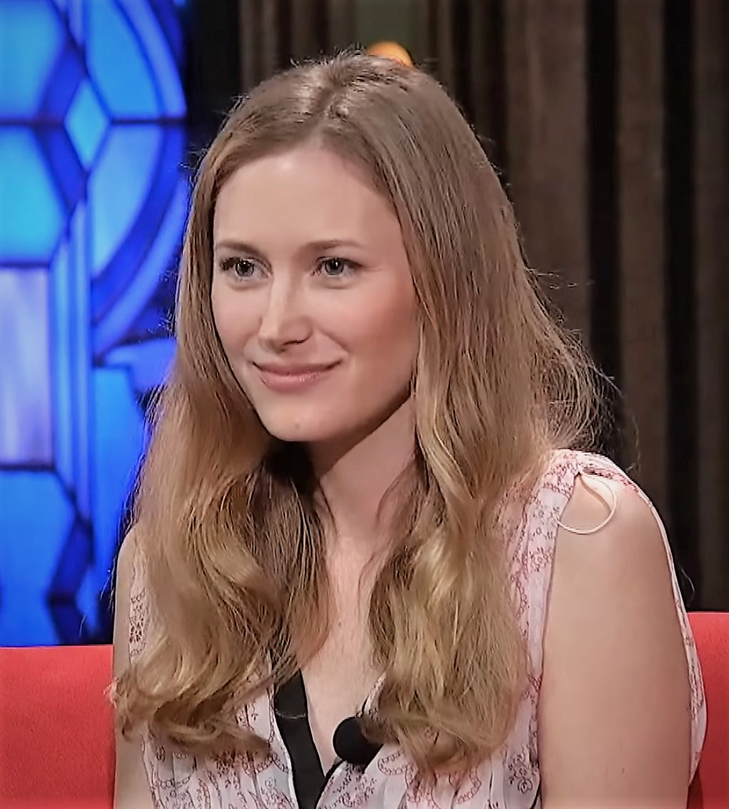 3. Tereza Srbová - Show Jana Krause 19. 6. 2019 Hosté: Herečka Tatiana Dyková, Tibeťan Sonam Tsering a herečka Tereza Srbová. 👉 PODPOŘTE EMILA! 😉 Nadační fond Emil se stará o to, aby i děti s handicapem mohly sportovat. Vstupenky zakoupíte v sítích GoOut a Ticketportal a v divadle Archa: V POŘADU PŘIZVUKUJE KAPELA DAVIDA KRAUSE: Pavel Fanta — klávesy Ján Tulenko — kytara Ondřej Hauser — basa Michal Daněk — bicí David Kraus — zpěv